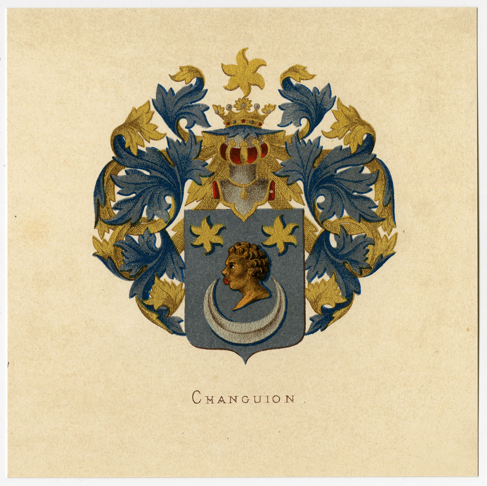 Changuion - Noble Dutch Family (1500s)